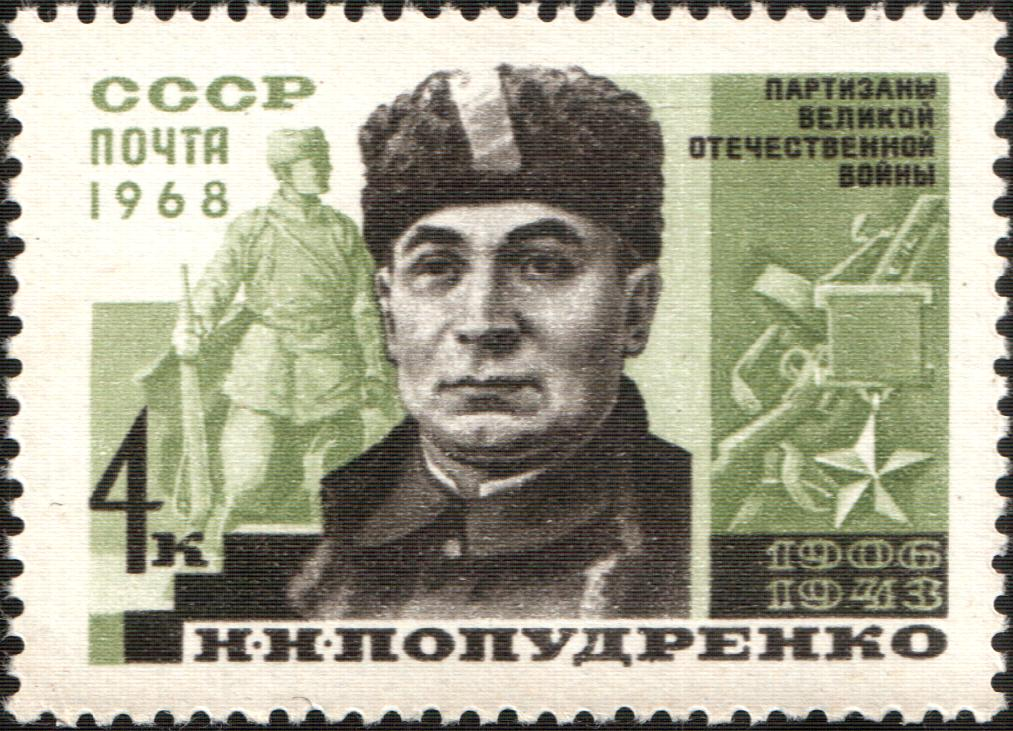 USSR stamp: USSR Partisan World War II Hero Nikolay Popudrenko. Series: Partisans of Great Patriotic War 1941–1945, Heroes of the Soviet Union